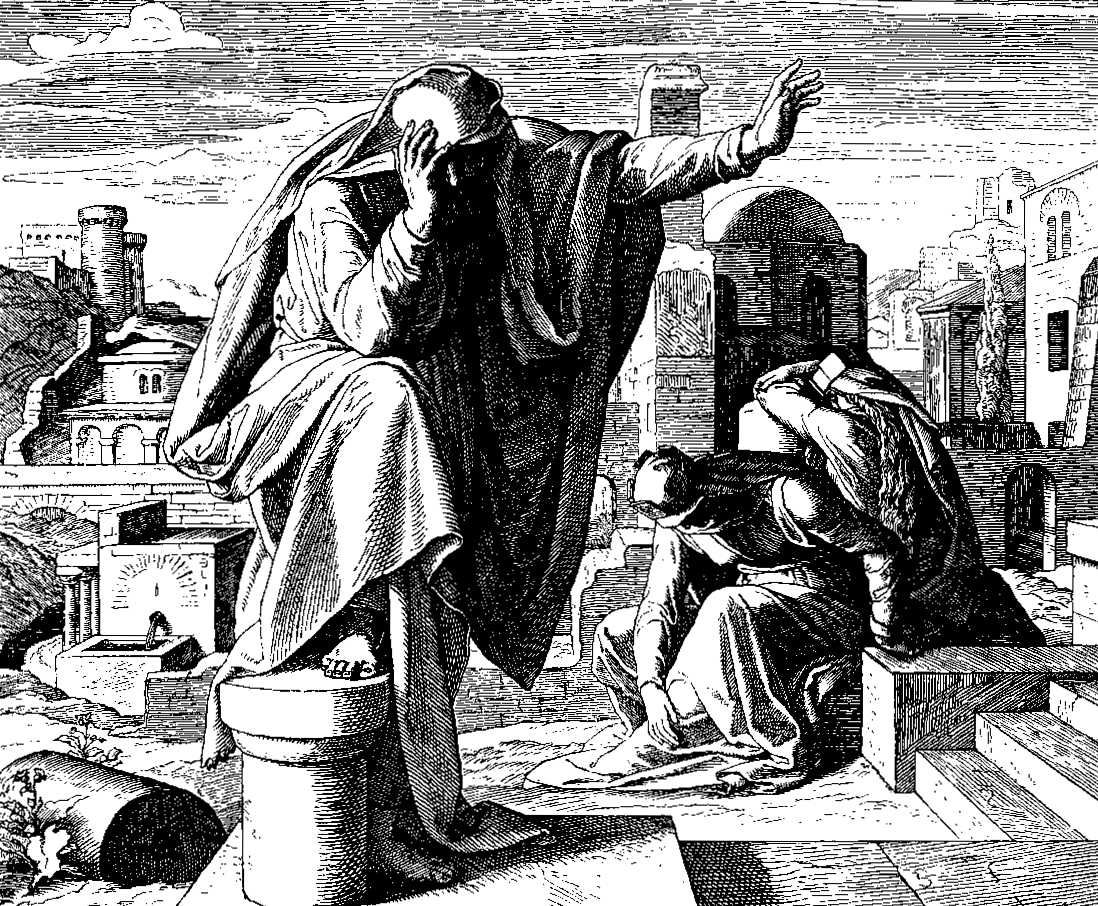 Woodcut for "Die Bibel in Bildern", 1860. Lamentations of Jeremiah